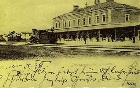 Postcard showing railway station of Pula (then Austro-Hungary, todays Croatia)